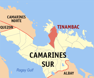 Map of Camarines Sur showing the location of Tinambac